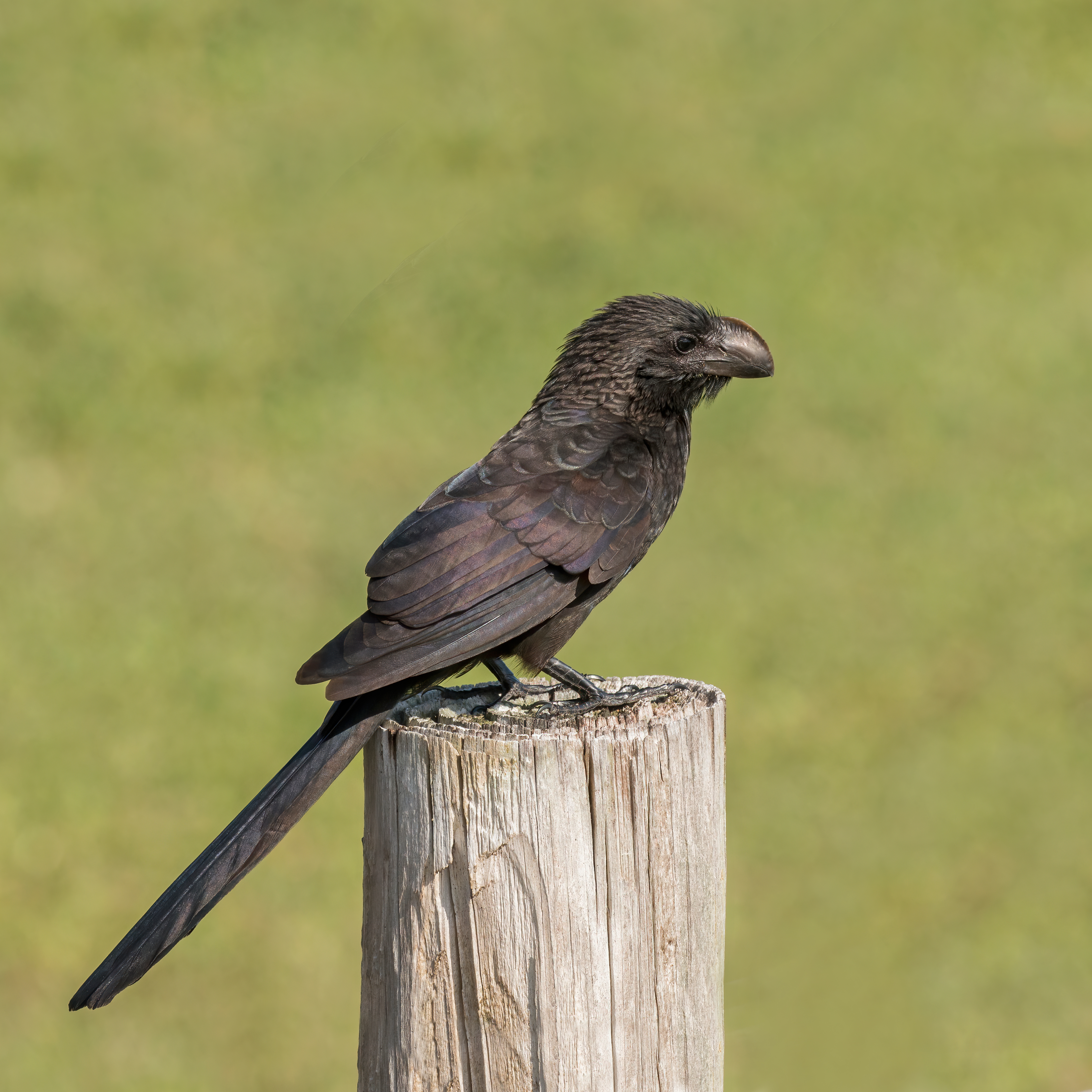 Smooth-billed ani (Crotophaga ani), Grand Cayman.